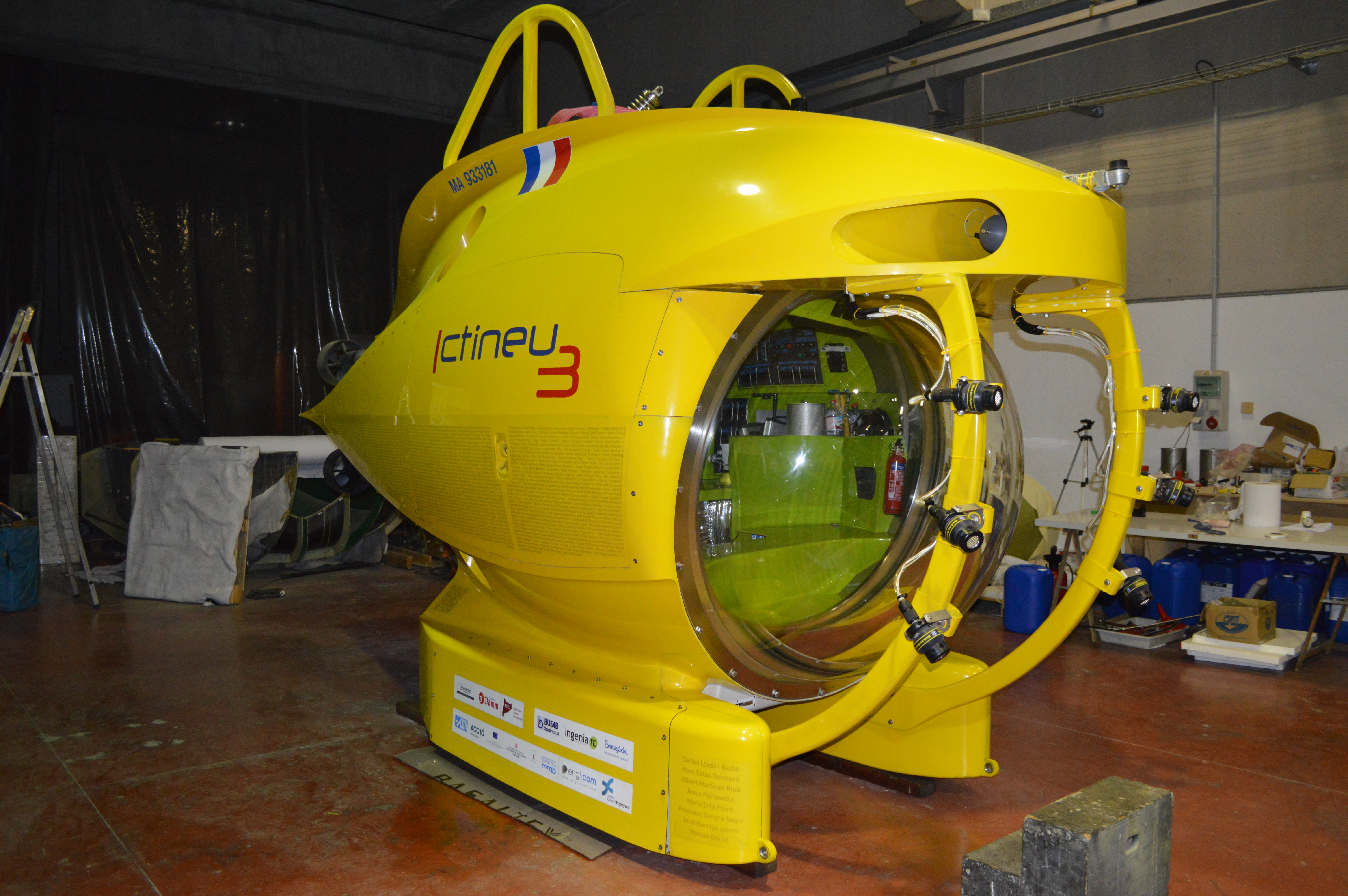 Photo of the Ictineu 3 submersible, capable of reaching depths of 1,200 m (3,900 ft).